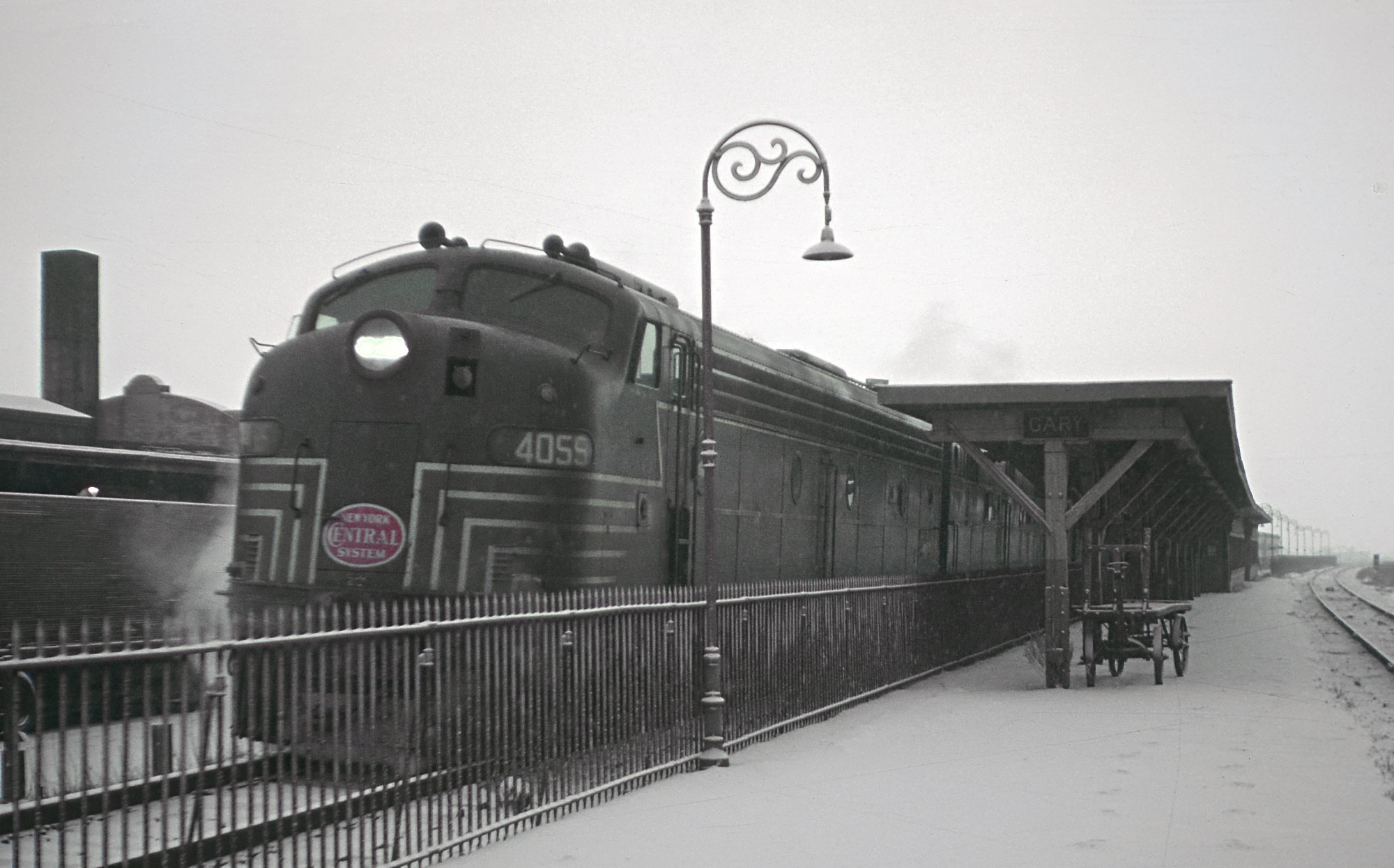 NYC E8A #4059 with eastbound train #354, the New York Special, at the Gary, Indiana Union Station on February 10, 1963